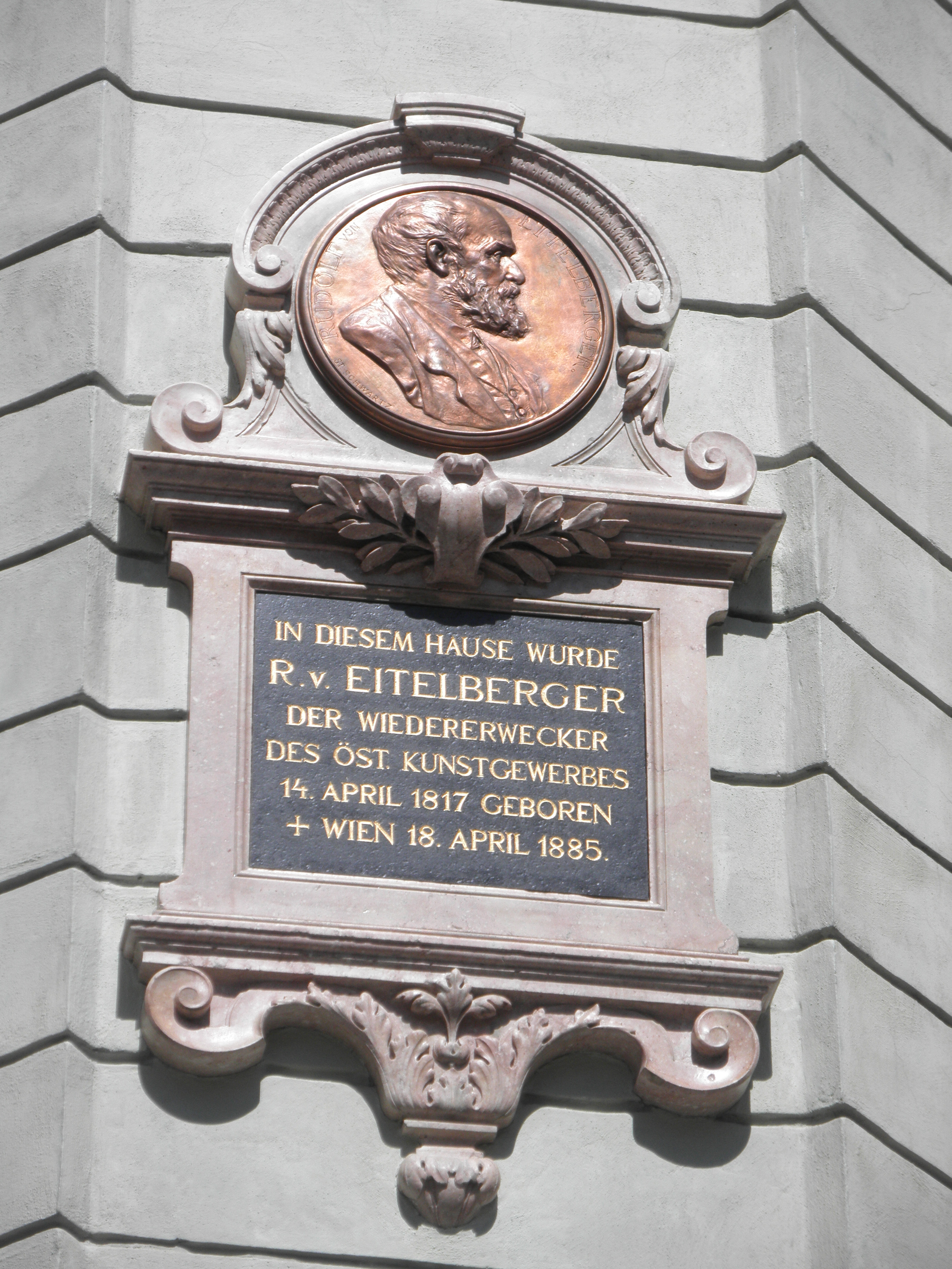 Photo of a replica of memorial plaque of Rudolf Eitelberger at his birth house in Olomouc.